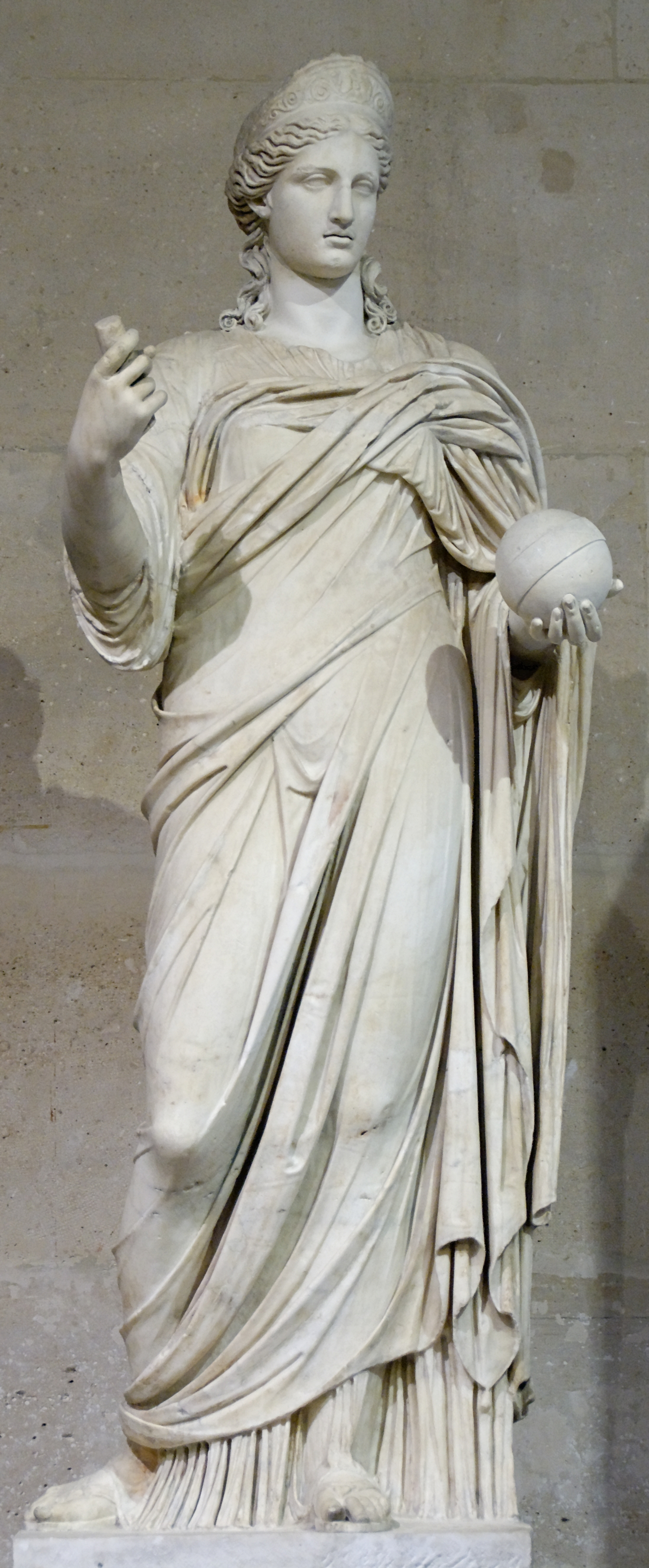 Statue of a goddess, probably Juno, restored as Urania. Marble, 2nd century AD (nose, mouth, neck, arms and feet are modern restorations).